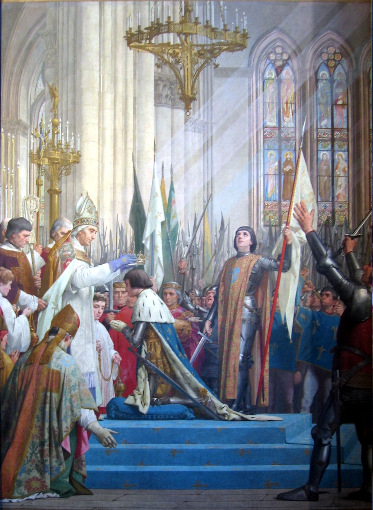 Pictures from my trip to Paris (19-22 jan, 2007) Image of Joan of Arc, 1889-1890 in the Panthéon de Paris, by E. Lenepveu. Image was skewed and straightened with Hugin.